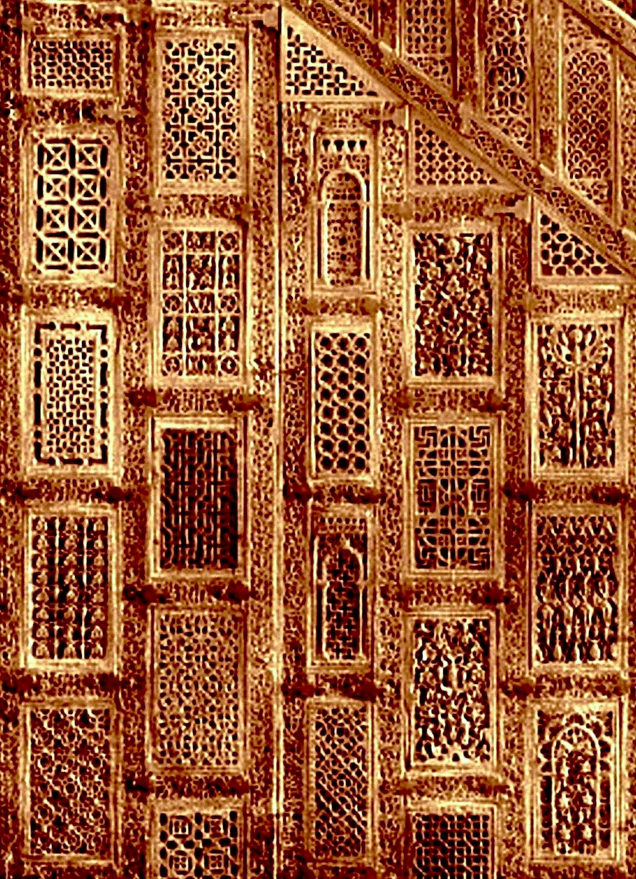 View of the sculpted panels of the minbar of the Great Mosque of Kairouan. Nowadays the oldest Islamic pulpit in the world to be preserved intact is the minbar of the Great Mosque of Kairouan (in the city of Kairouan in Tunisia). Dating from the 9th century (at about 862 AD), it is an eleven-step staircase made of carved and sculptured teak wood. Composed of an assembly of over three hundred finely sculpted parts, the minbar of the Great Mosque of Kairouan is considered as a jewel of Islamic wooden art.